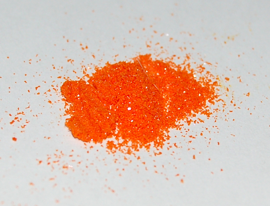 Photo of a sample of crystalline tin(IV) iodide, SnI4